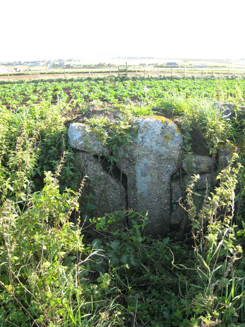 Ancient cross at Mayon Farm This cross is at the junction of two public footpaths and is in a short section of old hedge in the middle of a field. Presumably the remainder of the hedge has been removed for agricultural convenience but this short section has been retained because of this scheduled monument.